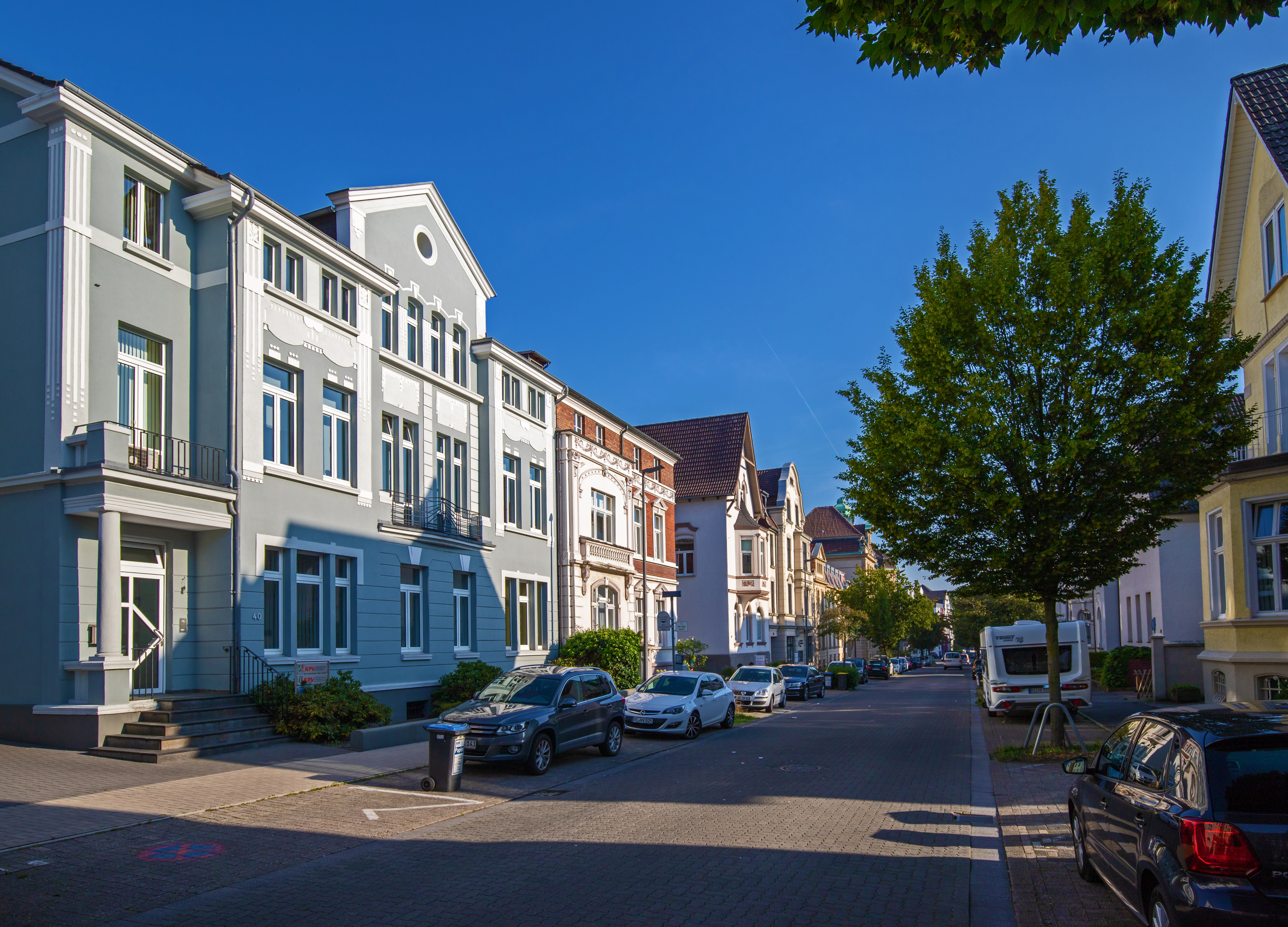 urban houses in "Gründerzeit" style at Limperstraße in westend of Recklinghausen - Recklinghausen, North Rhine-Westphalia, Germany